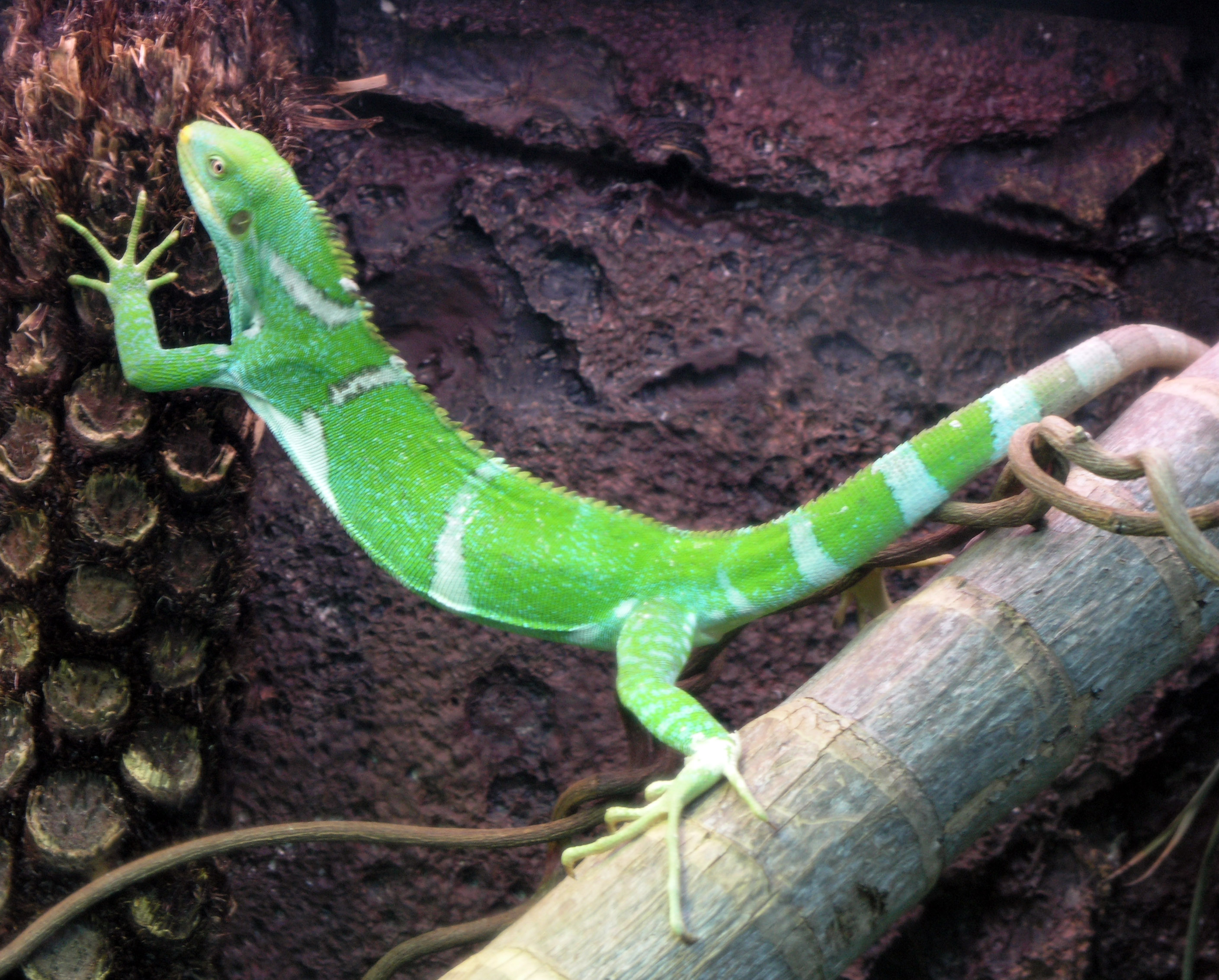 Fijian Crested Iguana Perth Zoo Sept 2005